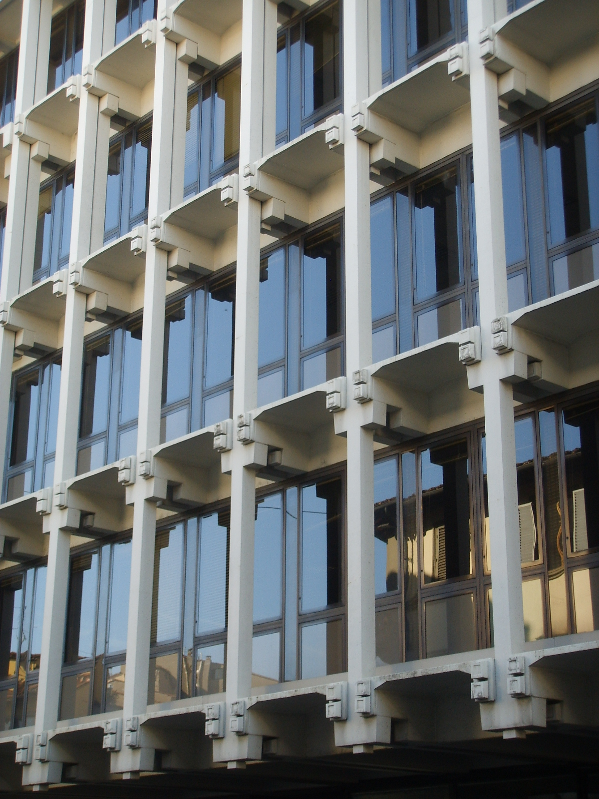 Centro leasing